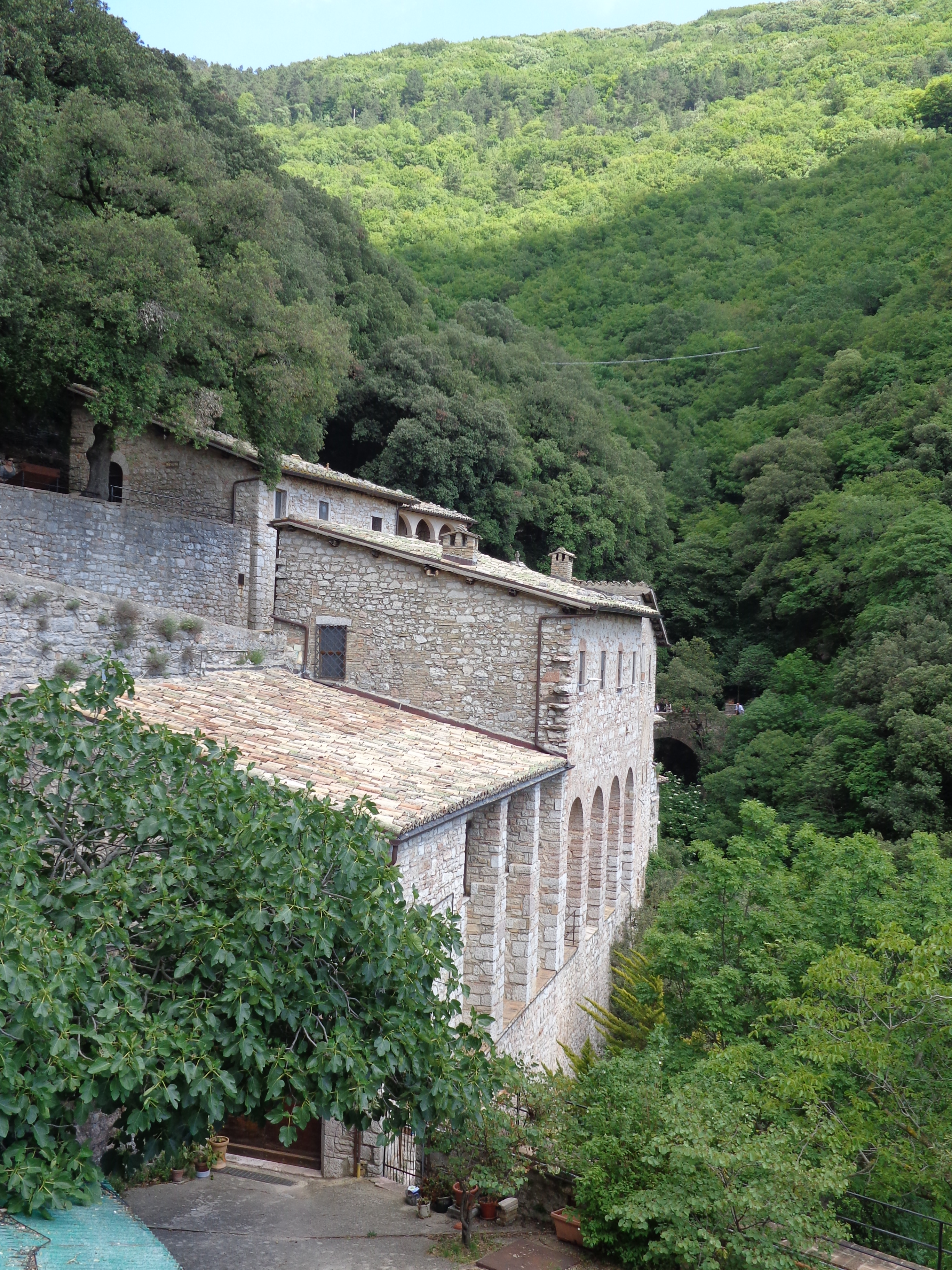 Eremo delle Carceri (Assisi)